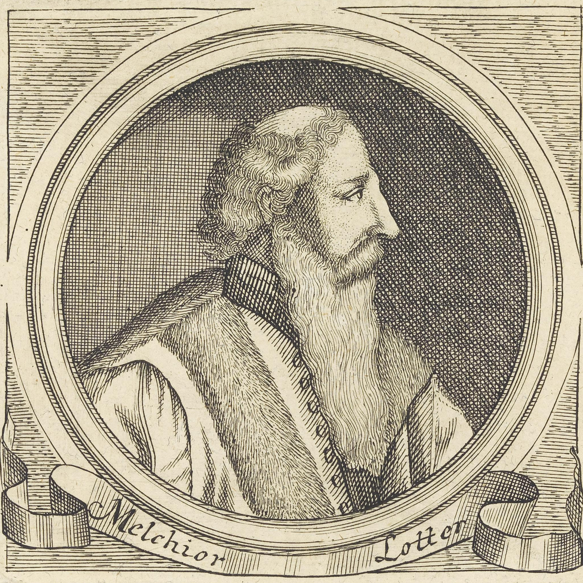 Melchior Lotter the Elder (1470-1549), German printer and publisher